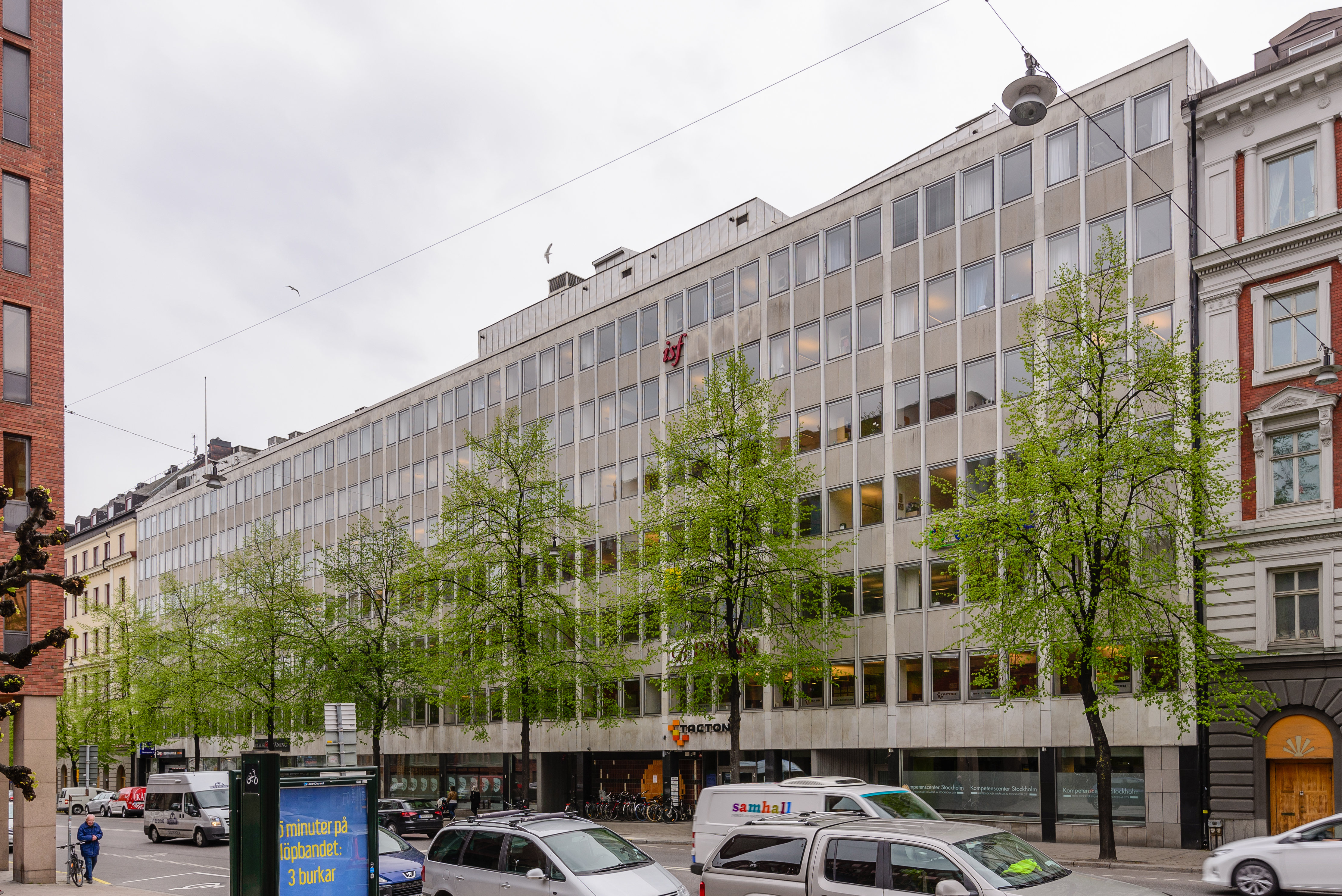 Härolden 44 is a office building at Fleminggatan in Kungsholmen, Stockholm. Built for ÅF in 1964. Architects: Bertil Karlén and Ralph Wikner.